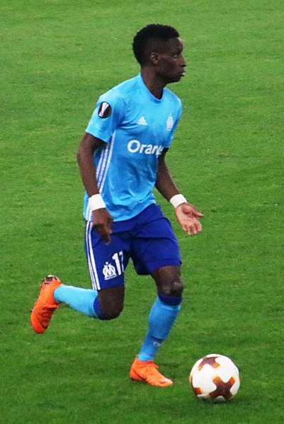 Bouna Sarr with Olympique de Marseille in 2018.